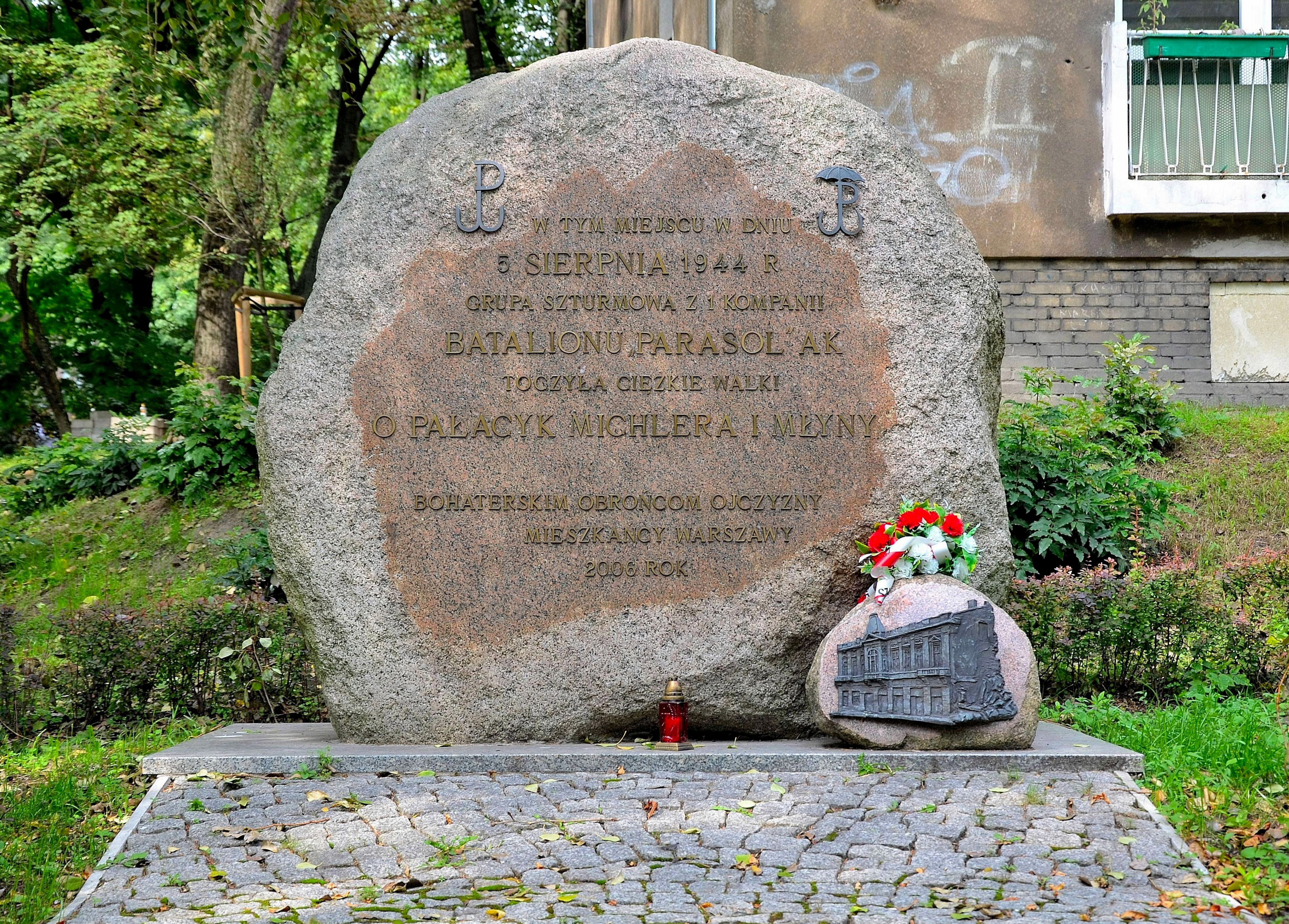 Stone commemorating fighting for the Michler's palace during the Warsaw Uprising at 40 Wolska Street English | Polski | +/−